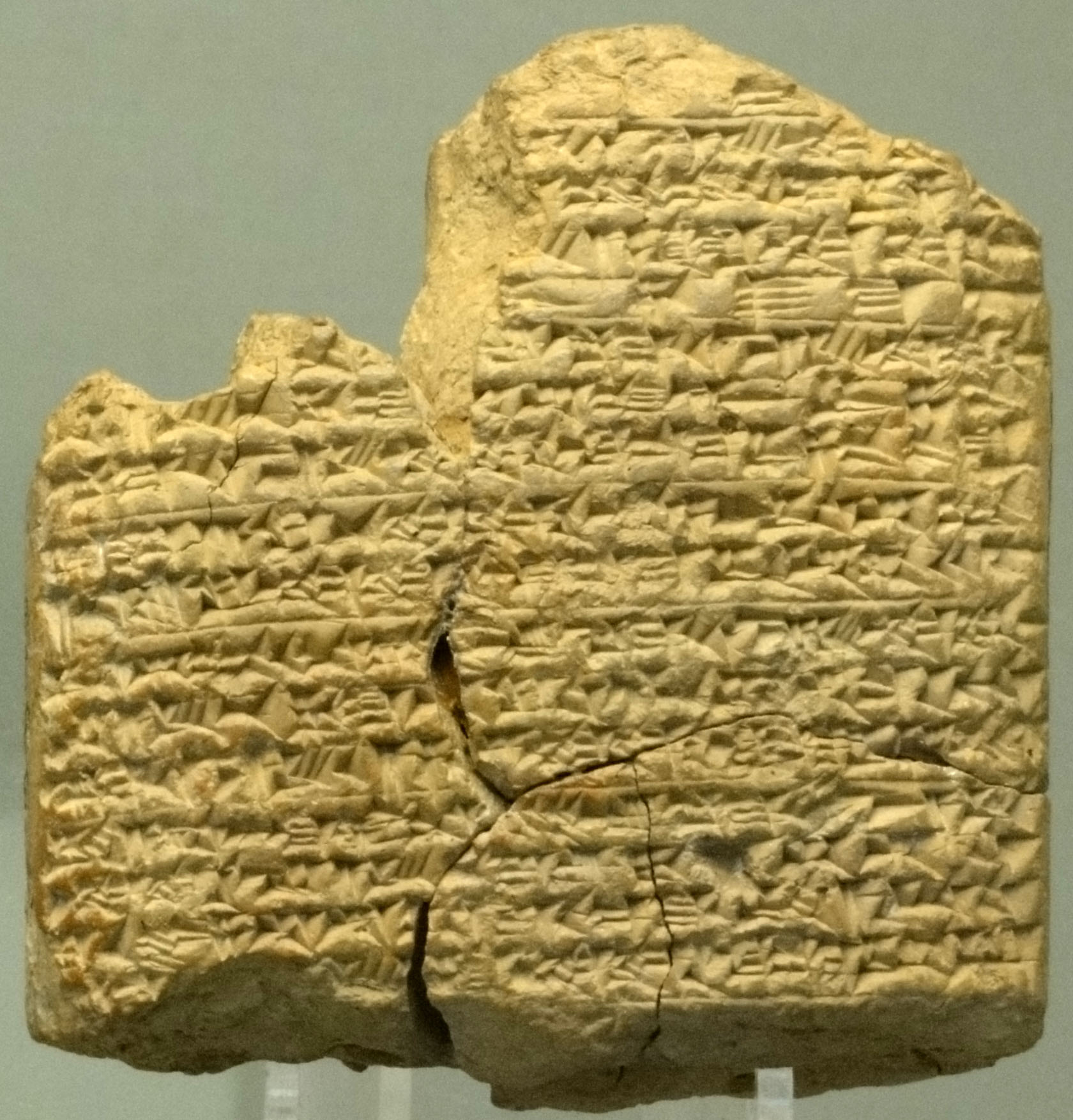 600-500BC cuneiform tablet with instructions for dyeing wool. Found in Sippar, Neo-babylonian period.